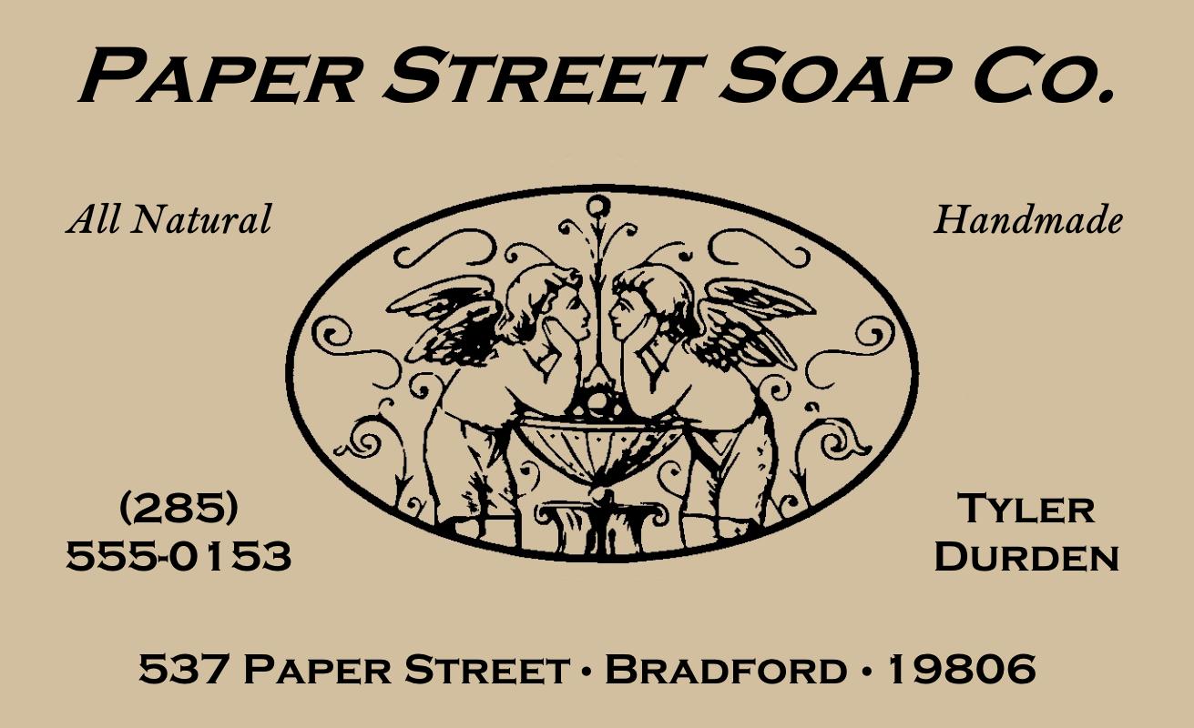 Remake of Tyler Durden's business card from the film adaptation of Fight Club.